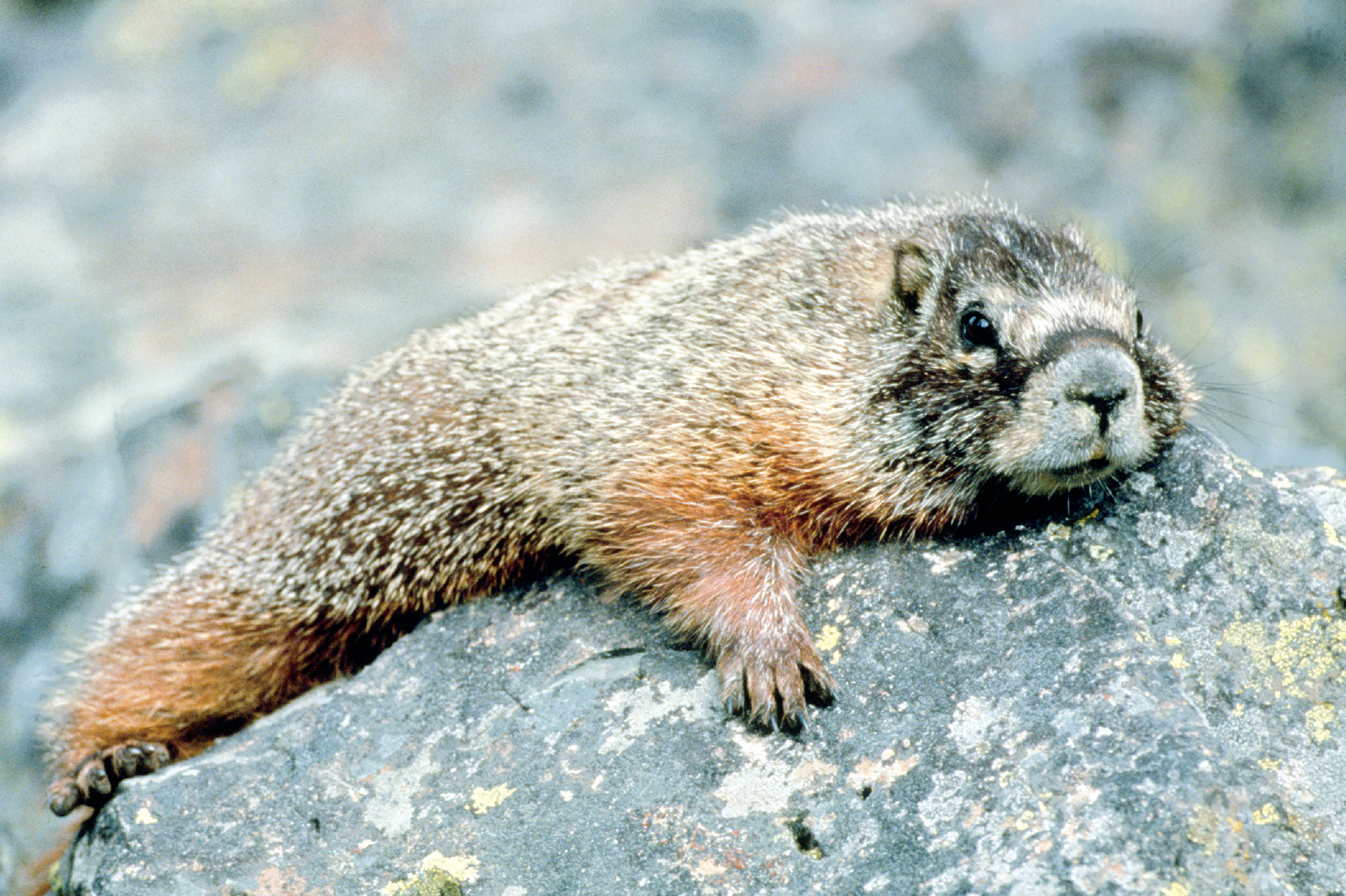 Yellow-bellied marmot (Marmota flaviventris) in Grand Teton National Park, Wyoming, United States